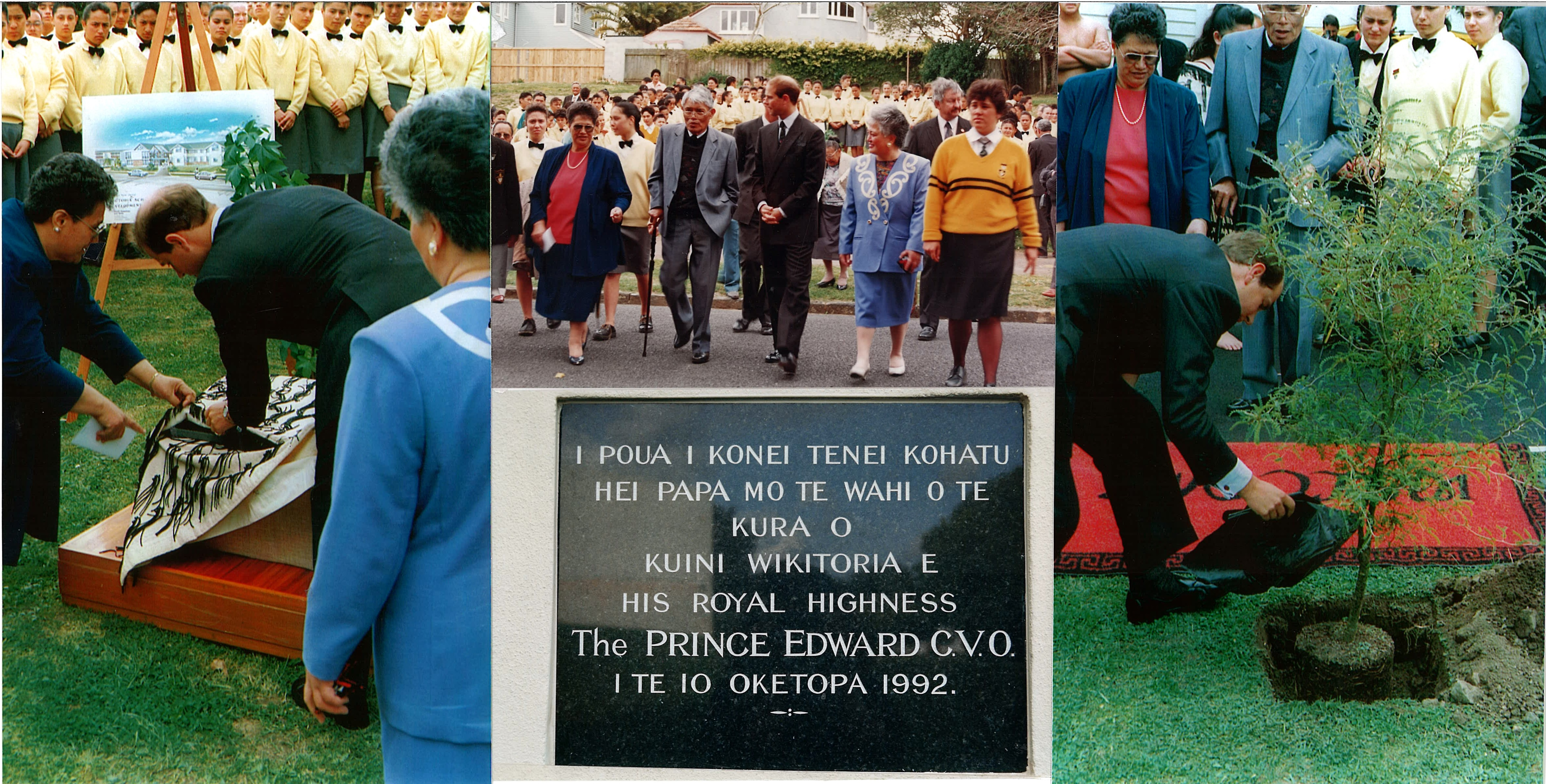 Prince Edward, Earl of Wessex visiting Queen Victoria School for Maori Girls - October 10 1992 Archives NZ reference: ADAE 14952 A1522 4b]